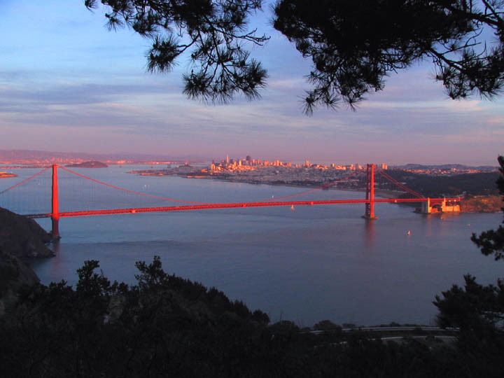 Author of this photo is Matt O'Brien. It is a picture that I myself took while sitting on Ben's Bench. Ben's Bench is ideally located for a quiet view of the Golden Gate Bridge and San Francisco beyond -- all while eating a quiet lunch and drinking a Big Beer. Congratulations to Ben on saving the schoolhouse from the rapacious Bourne historical park.